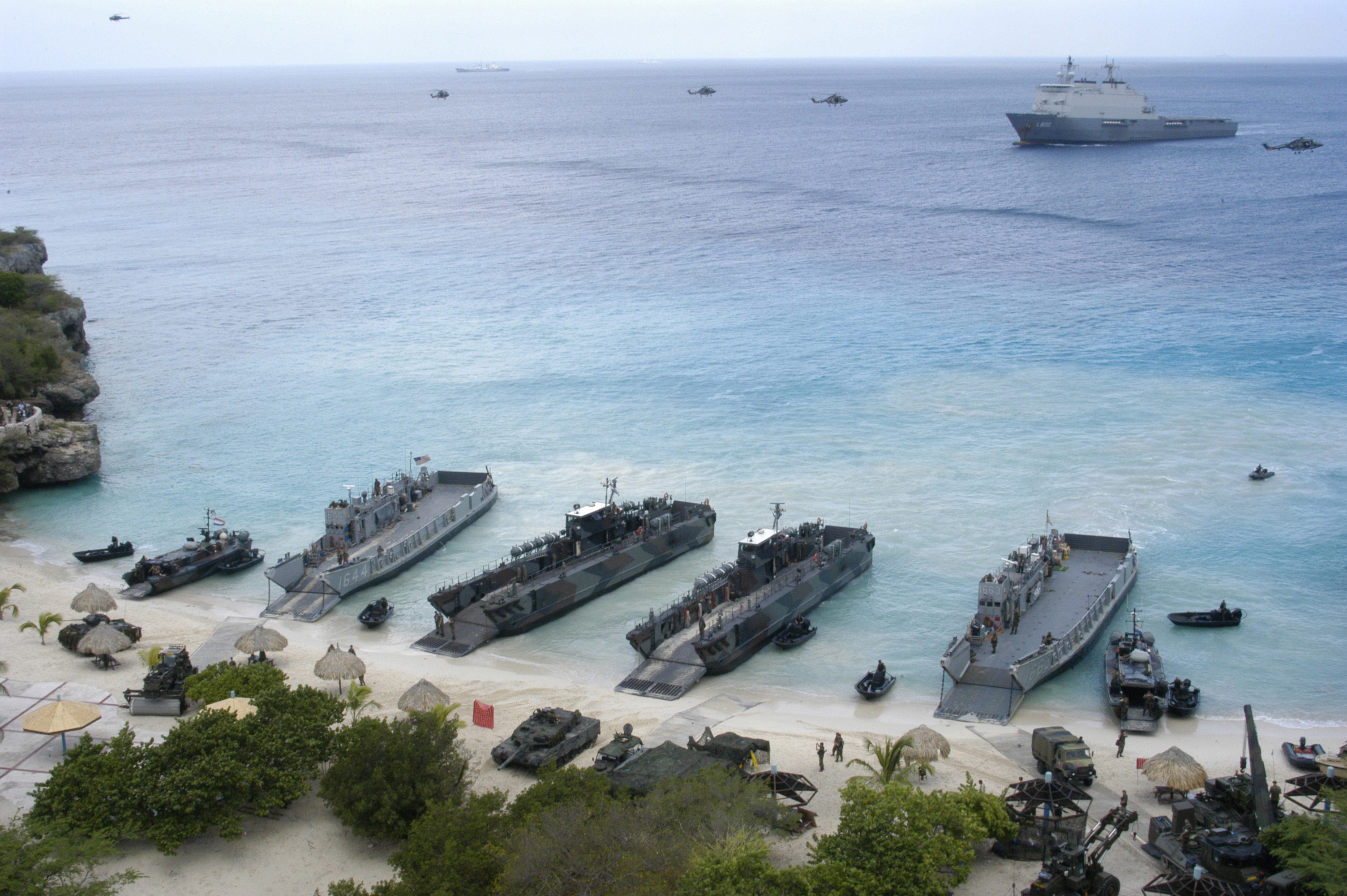 Curacao, Netherlands Antilles (June 6, 2006) - Two Landing Craft Utilities (LCU) assigned to Amphibious Craft Unit Two (ACU-2), rehearse storming the beach in Curacao, Netherlands Antilles. ACU-2 is embarked aboard the amphibious assault ship USS Bataan (LHD 5), underway joining military forces from France, Spain, United Kingdom and Venezuela in the Dutch led Joint-Caribe Lion 2006 (J-CL06) exercise. U.S. Navy photo by Photographer's Mate 3rd Class Jeremy L. Grisham (RELEASED)